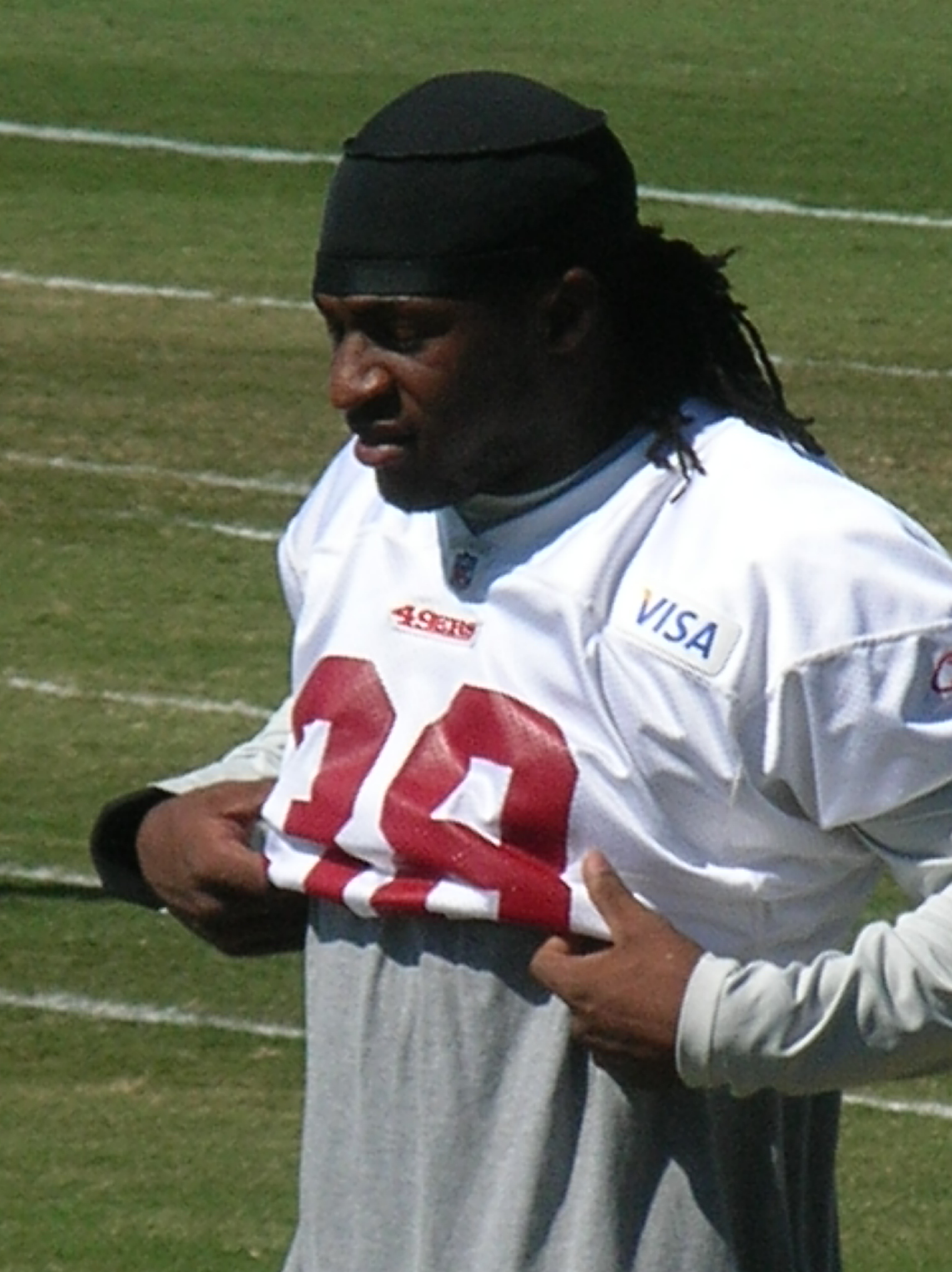 San Francisco 49ers safety Dashon Goldson at training camp in Santa Clara, California.